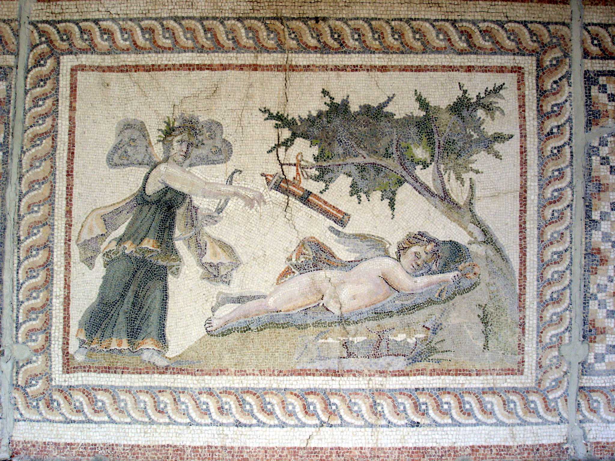 Photographs from Antakya Archaeological Museum